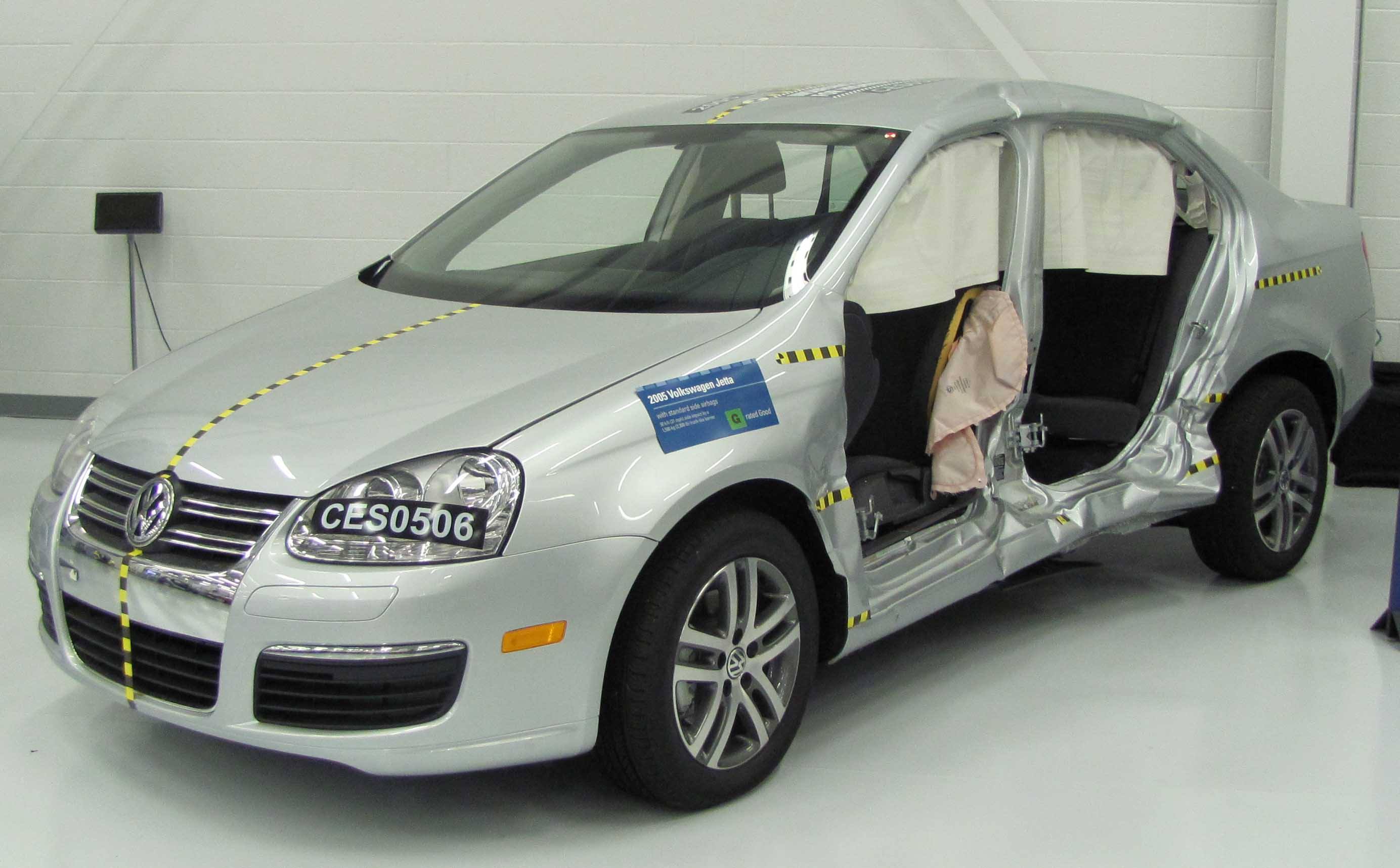 Crash-tested 2005 Volkswagen Jetta photographed at the Insurance Institute for Highway Safety Vehicle Research Center. IIHS crash test page